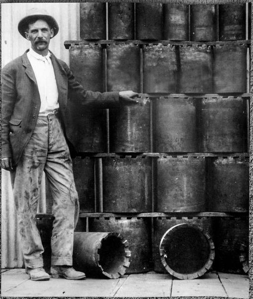 Reuben Carlton Baker poses in 1914 in next to a stack of Baker Casing Shoes, a device he invented to ensure the uninterrupted flow of oil. In 1918, Baker opened his first plant in Coalinga as the Baker Casing Shoe Co., which in turn became Baker Oil Tools.